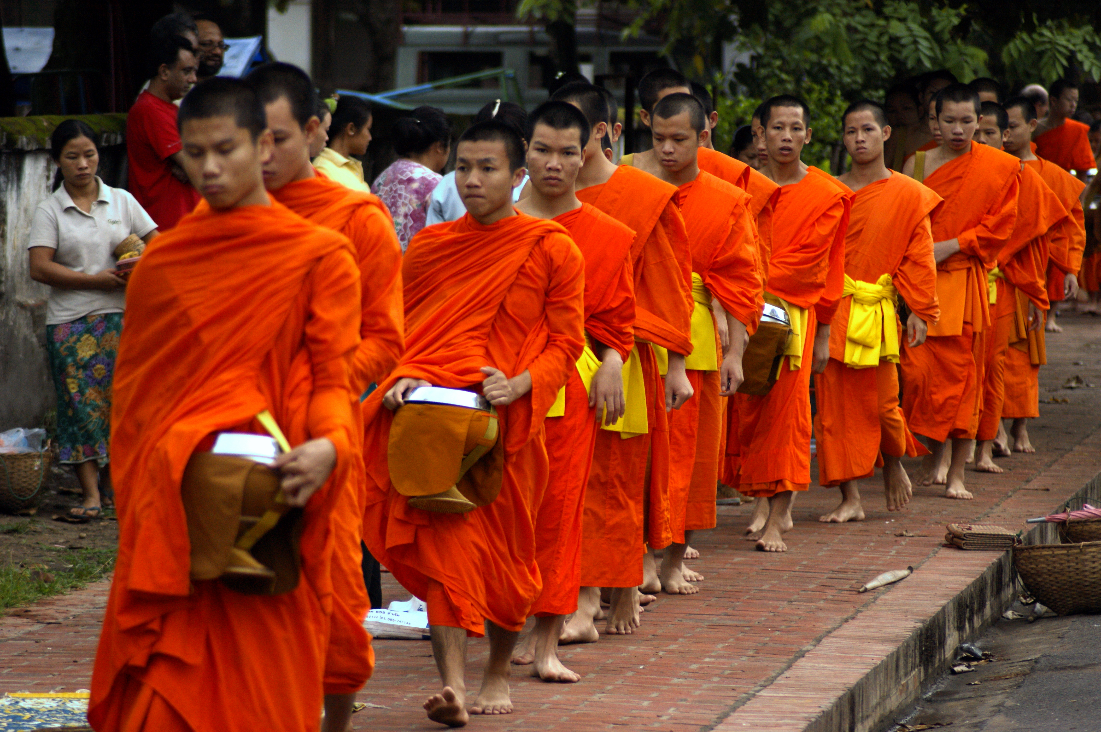 A procession of Buddhist monks walks through downtown Luang Prabang in Laos.